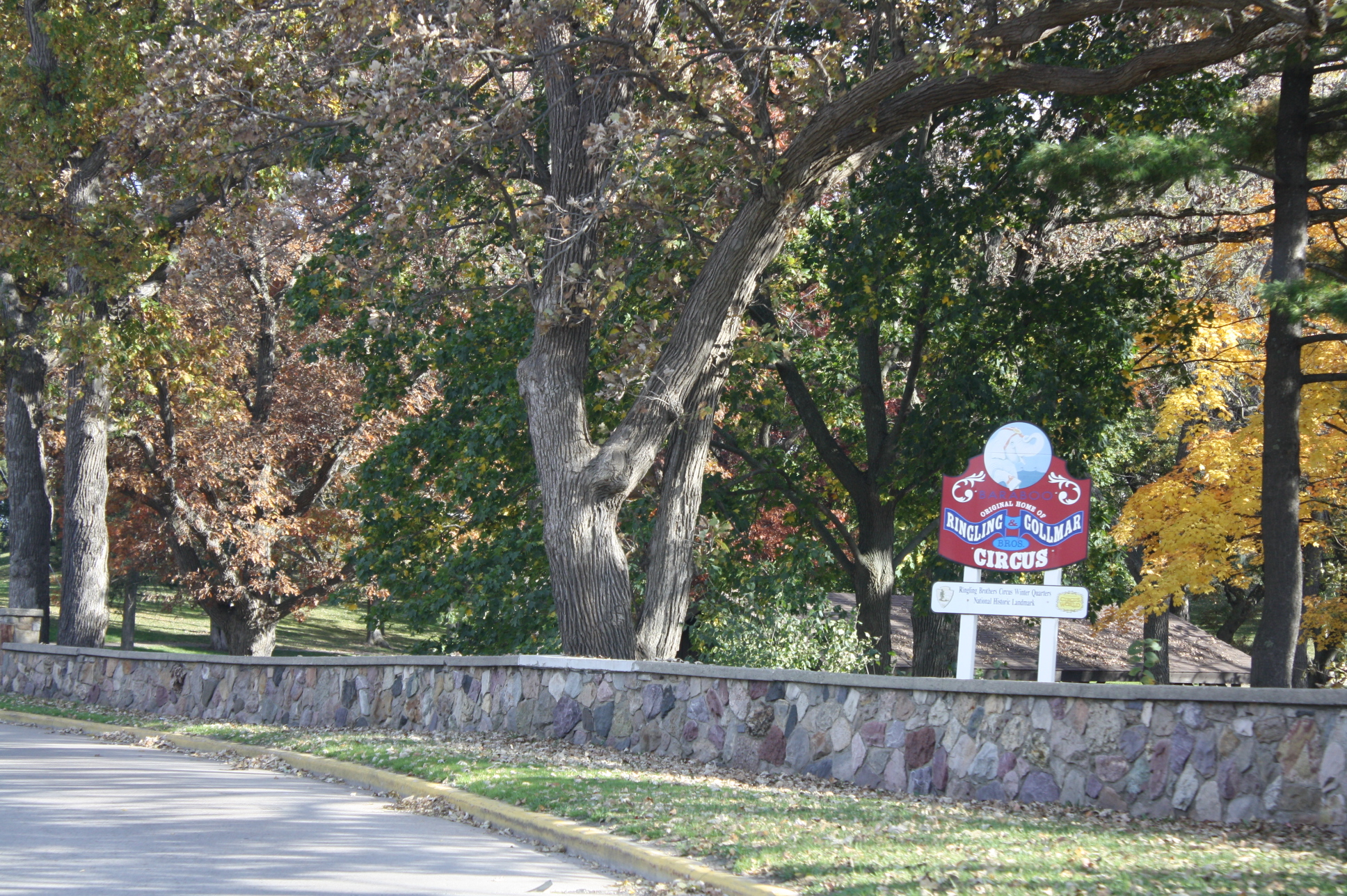 Looking east at the welcome sign for Baraboo, Wisconsin along Wisconsin Highway 33.